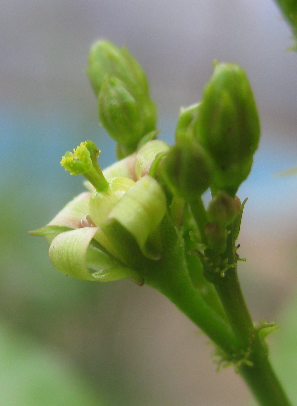 The tiny female flowers of Jatropha variifolia (Euphorbiaceae) open before the male flowers. This guarantees outcrossing. Note the abundant amount of pollen grains on the stigmas. Only three grains would be sufficient to form the three seeds per fruit that originates from one female flower. This plant originates from Goba in Southern Mozambique. As a member of the Subsection Capenses this species can be used to genetically improve Jatropha curcas, the biodiesel plant.